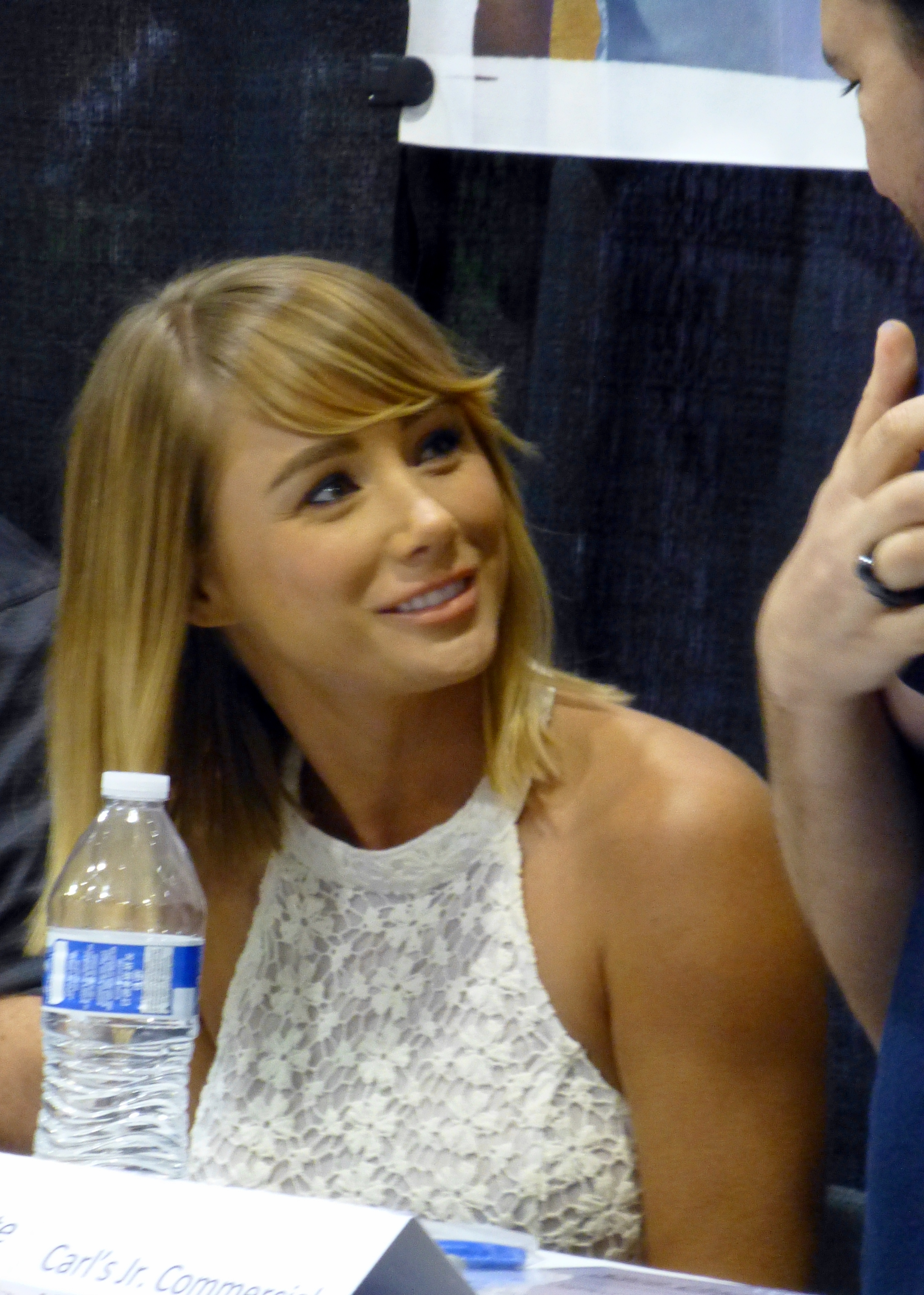 Didn't realize it when I took the picture just as someone arrived. It's interloper Wil Wheaton ........